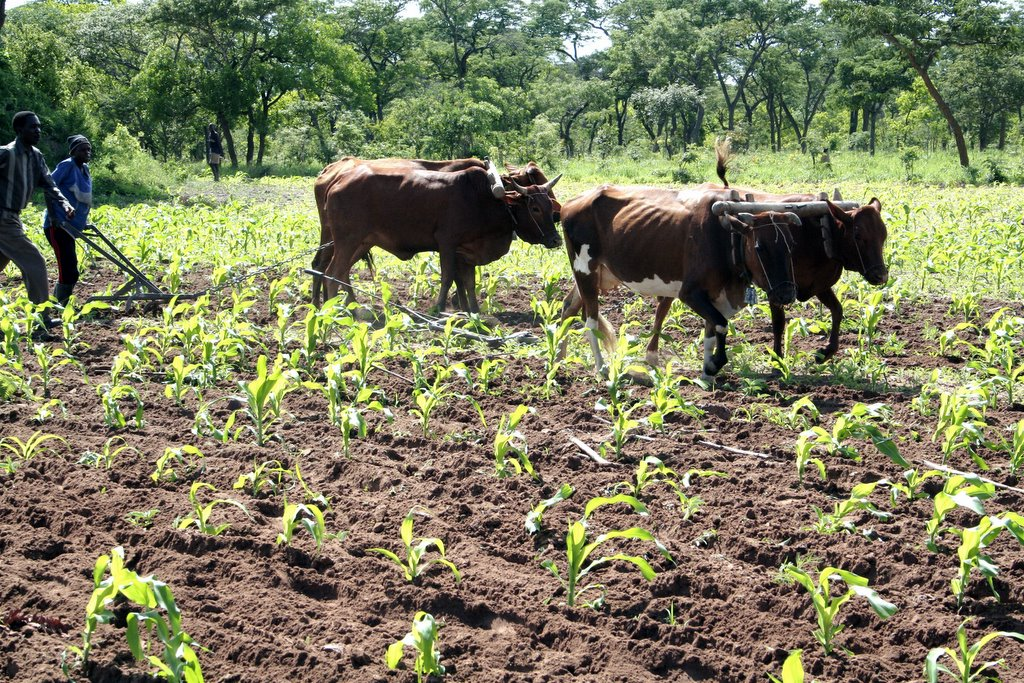 ploughing with oxen in Zambia southern province